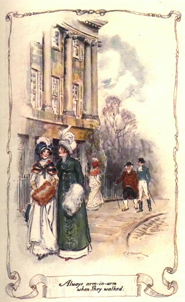 Colour illustration of a 1907 edition of Northanger Abbey (Jane Austen's novel), by C. E. Brock (died 1938)